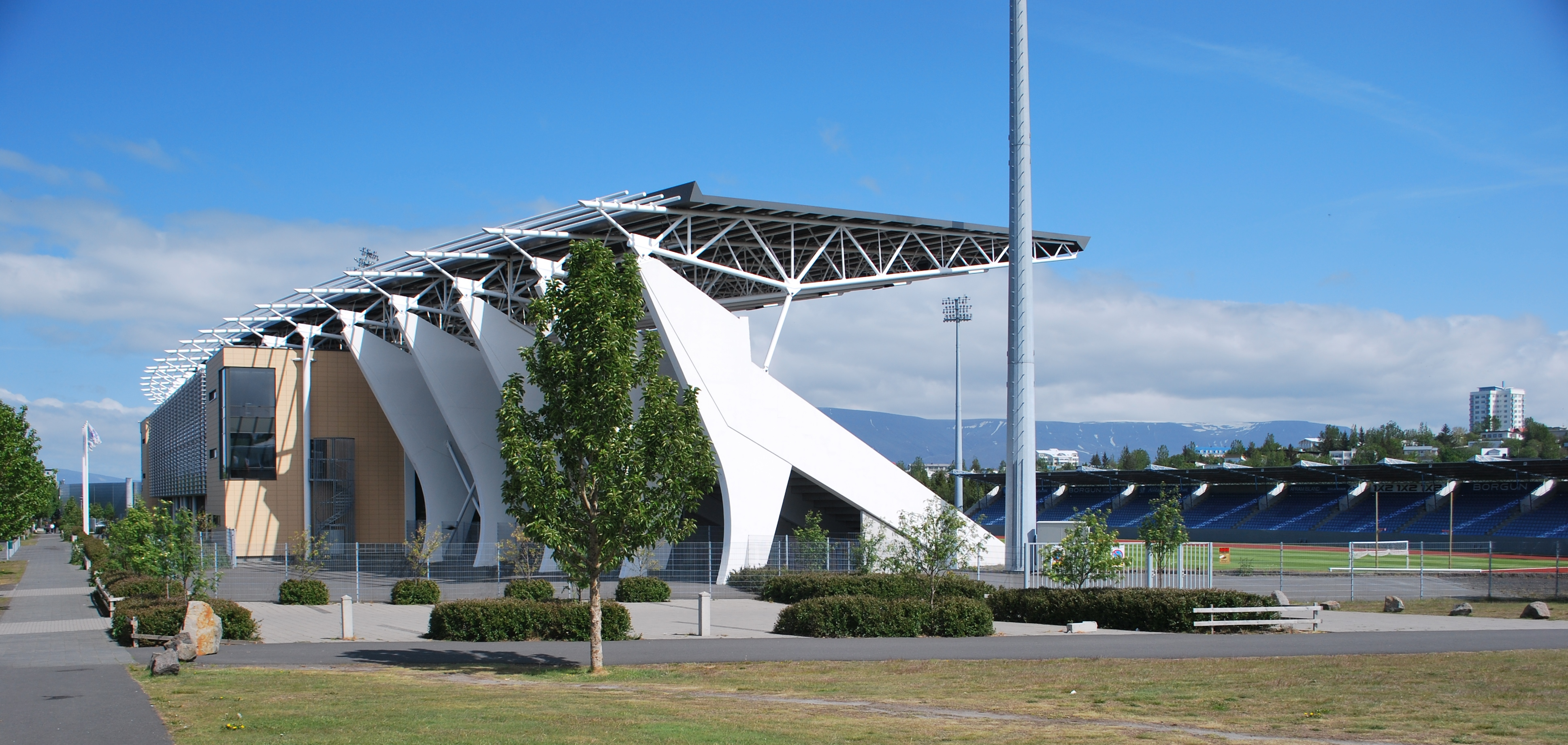 National football stadium Laugardalsvöllur, Reykjavik, seen from the footpath along Reykjavegur